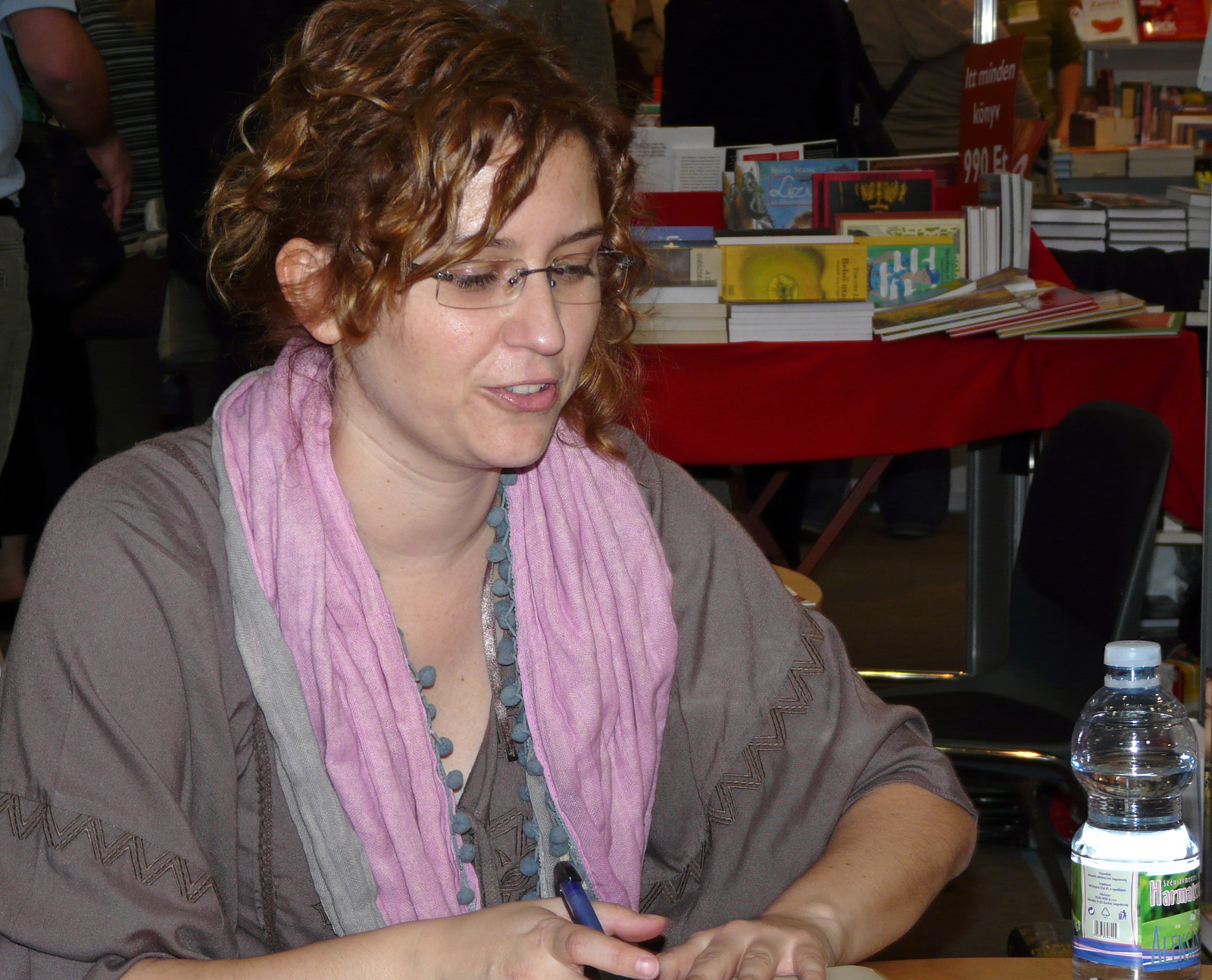 Hungarian Television personalitie Alinda Veiszer. International Bookfest in Budapest, 2011.